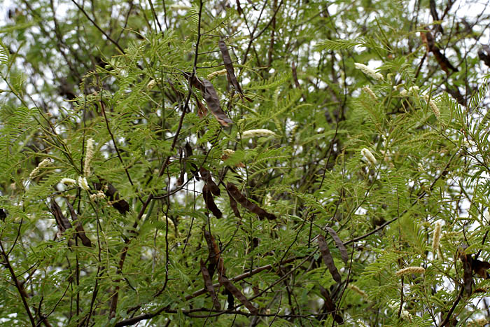 Khair Acacia catechu in Hyderabad , India.